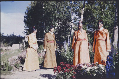 Four Tsipon officials in the garden of Dekyi Lingka. From left to right: Shakapa, Ngapo, Lukhangwa, Namseling. They are wearing fine silk robes and have their hair tied up in the customary top-knot adorned with ornaments.